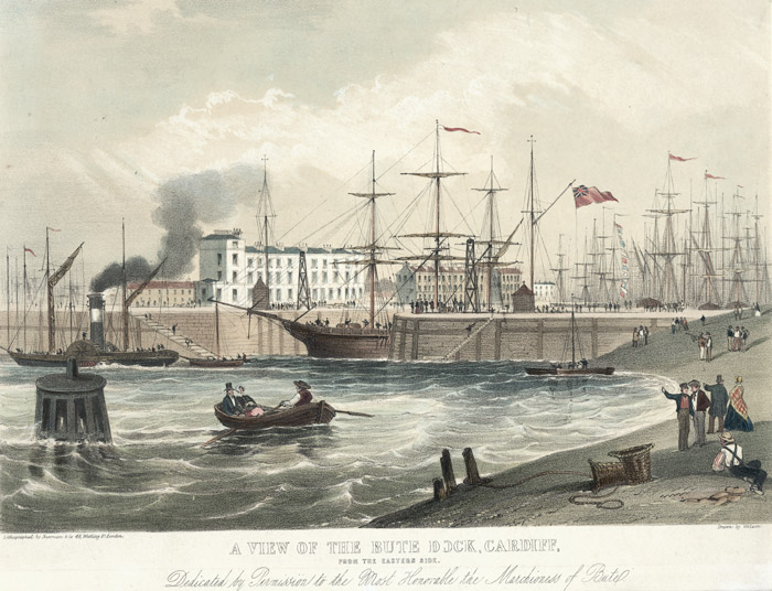 A view of ships, a paddle steamer and a ferry at Bute Dock, Cardiff. Numerous people are also standing on the docks.